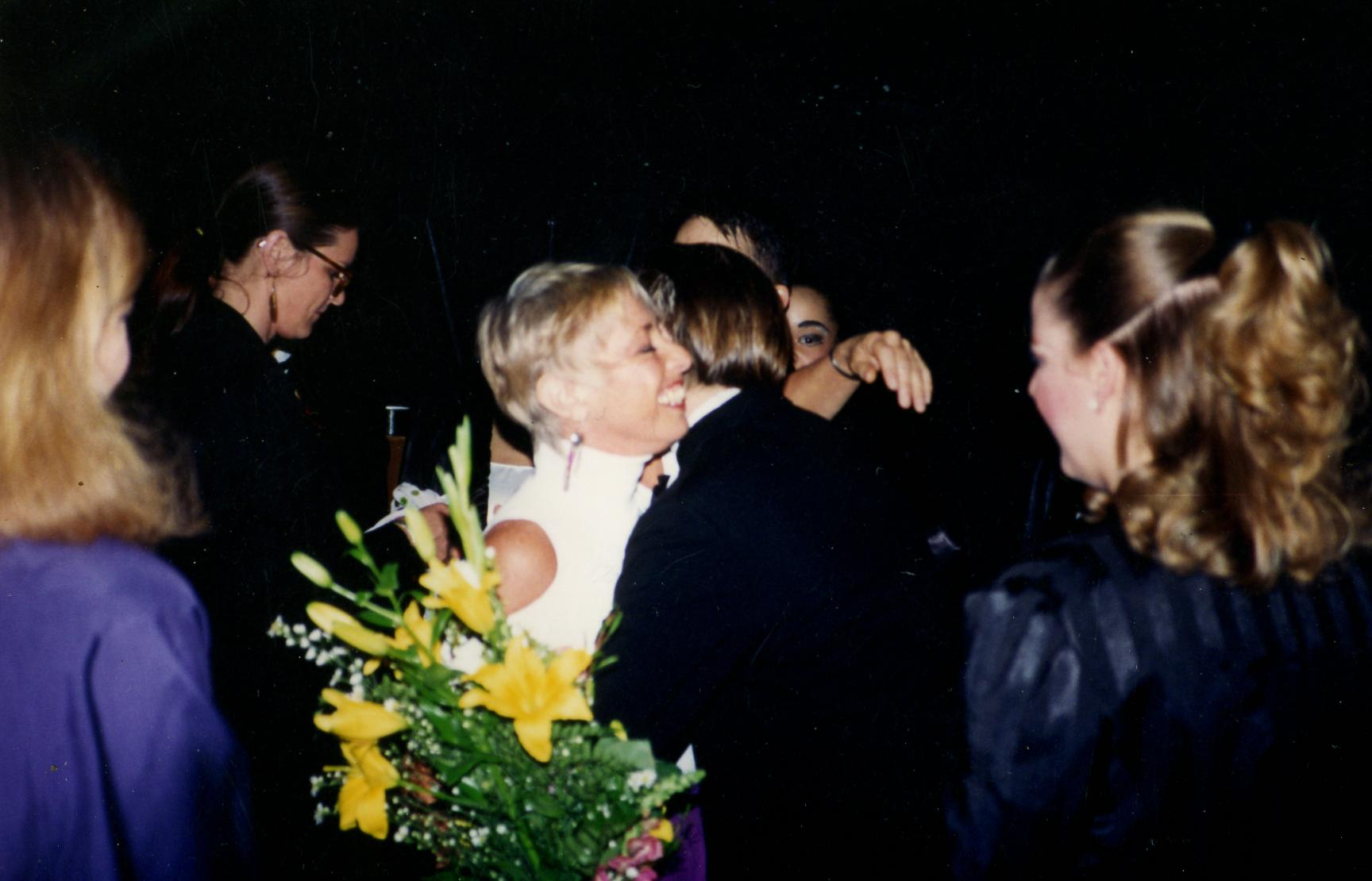 Brenda Bufalino after a performance with The Jefferson Dancers at Intermediate Theatre (now Newmark Theatre) at Portland Center for the Performing Arts